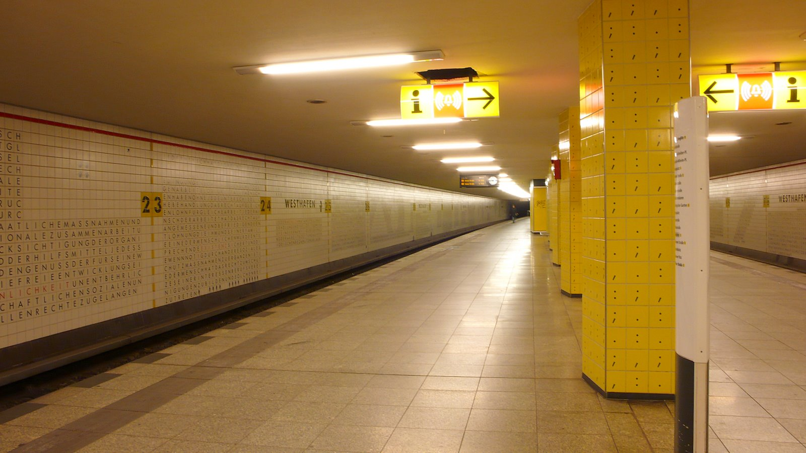 Westhafen subway